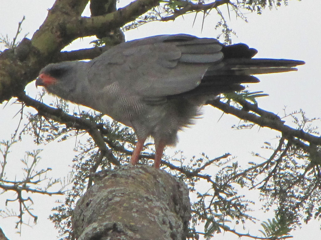 Dark Chanting Goshawk Melierax metabates, taken in Serengeti National Park, Tanzania